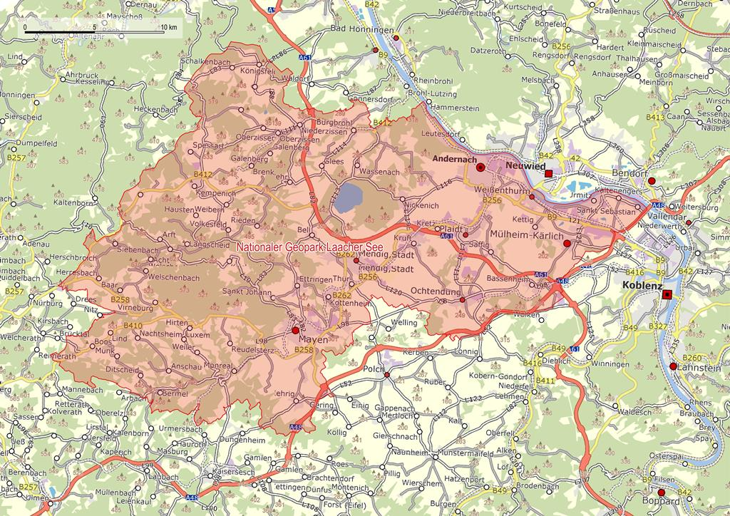 map of national geopark laacher see